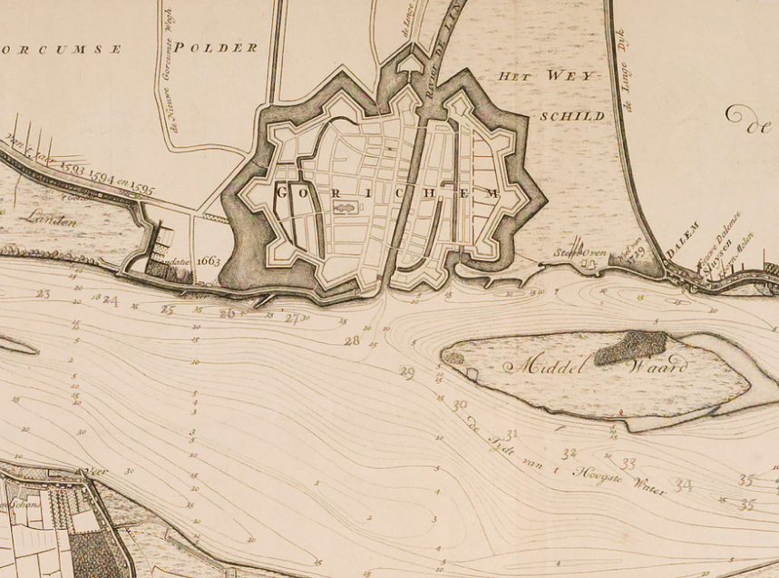 Fragment of the first bathymetric contour map. By Nicolaas Cruquius, 1730